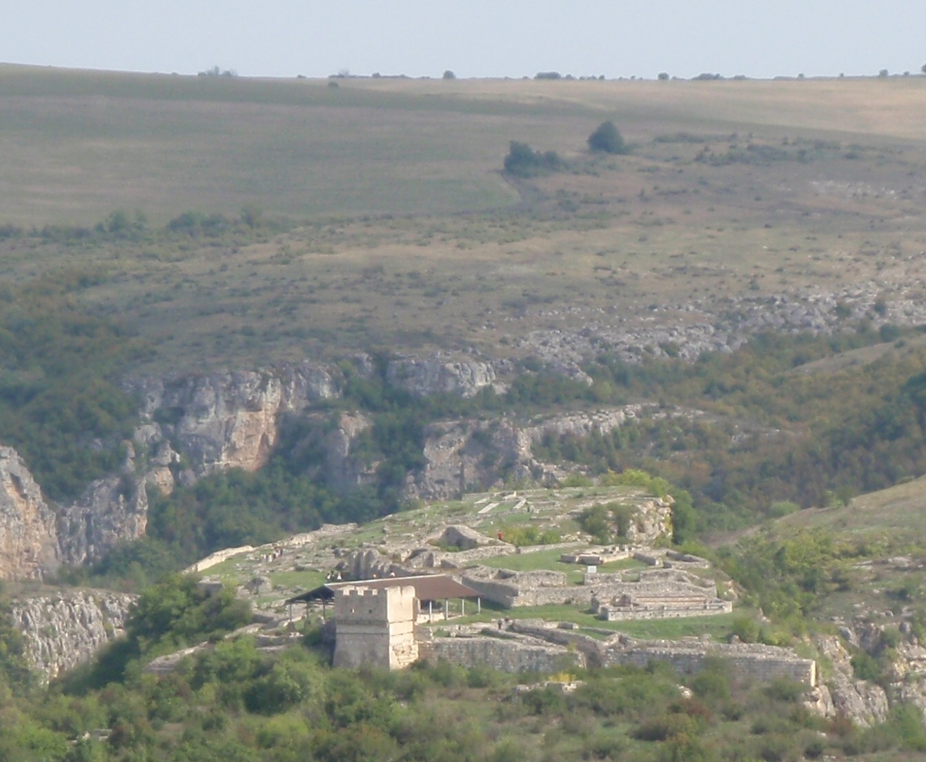 Medieval stronghold of Cherven, Bulgaria, seen from the road to the village.